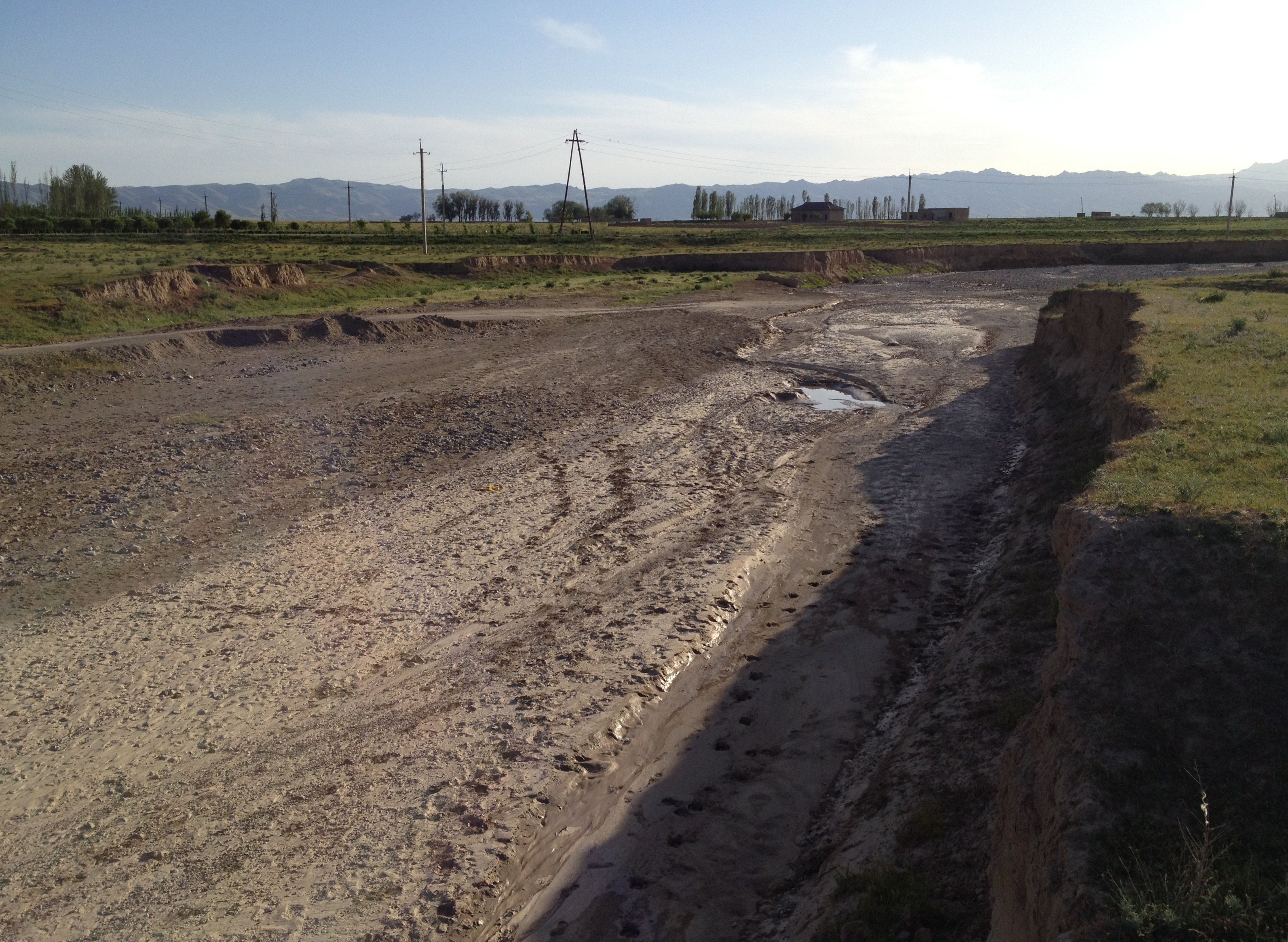 Katta Say wady near Tura village (Koshrabot district of Samarkand region)